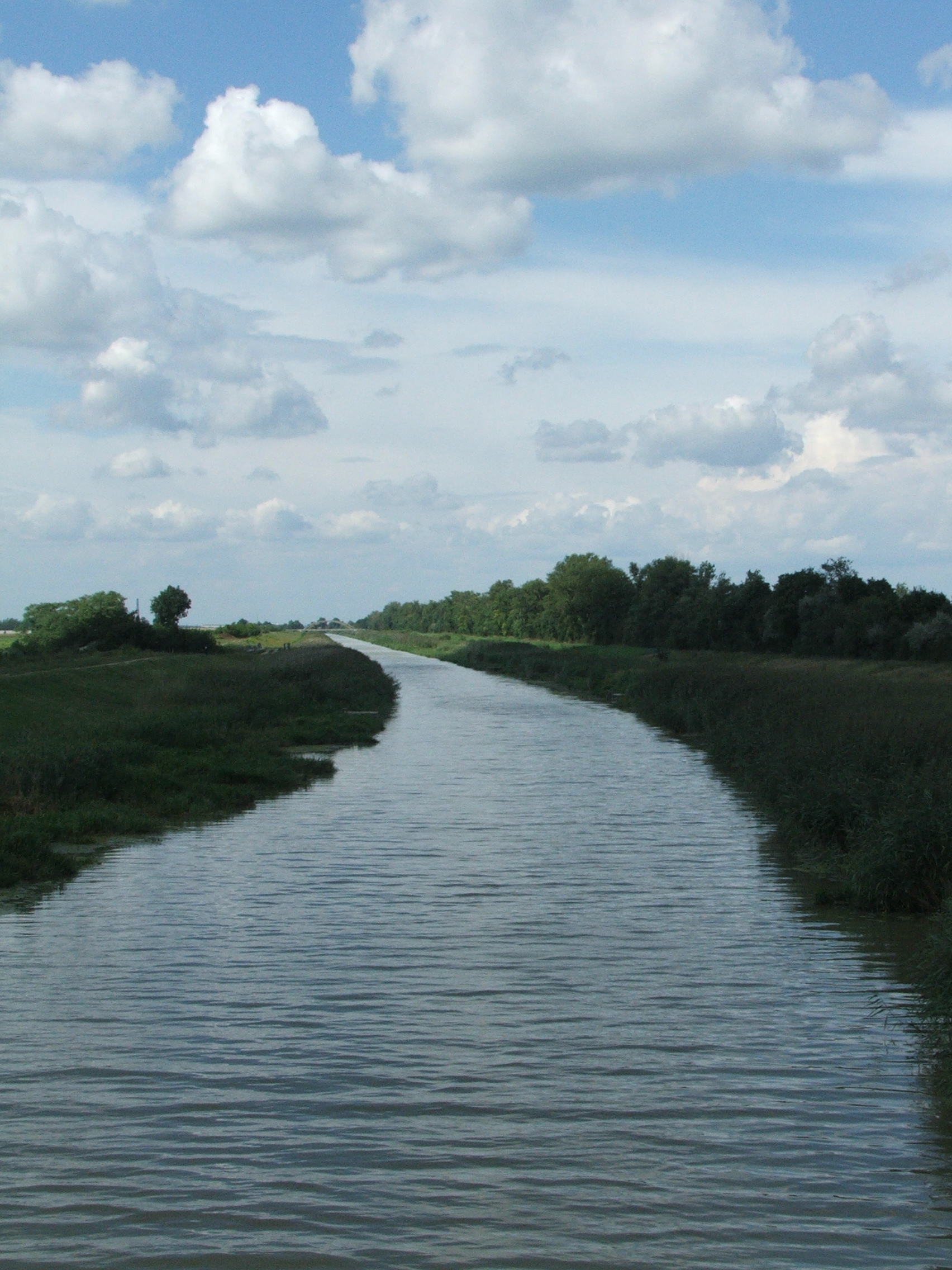 View of the Keleti Canal in Hungary near Hajdúnánás.